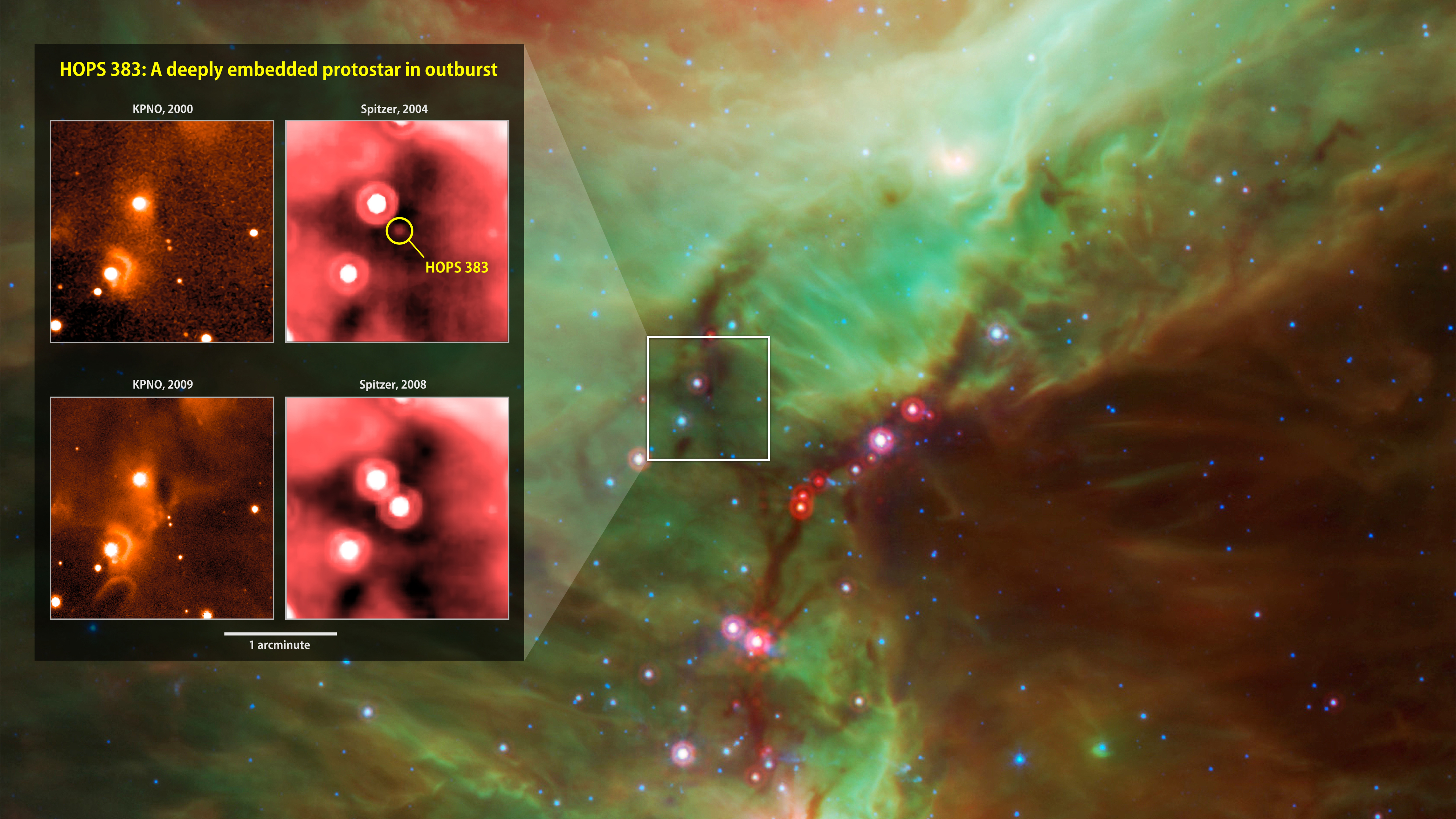 PIA18928: Embryonic Star's Outburst Infrared images from instruments at Kitt Peak National Observatory (left) and NASA's Spitzer Space Telescope document the outburst of HOPS 383, a young protostar in the Orion star-formation complex. The background is a wide view of the region taken from a Spitzer four-color infrared mosaic. NASA's Jet Propulsion Laboratory, Pasadena, California, manages the Spitzer Space Telescope mission for NASA's Science Mission Directorate, Washington. Science operations are conducted at the Spitzer Science Center at the California Institute of Technology in Pasadena. Spacecraft operations are based at Lockheed Martin Space Systems Company, Littleton, Colorado. Data are archived at the Infrared Science Archive housed at the Infrared Processing and Analysis Center at Caltech. Caltech manages JPL for NASA. For more information about Spitzer, visit and